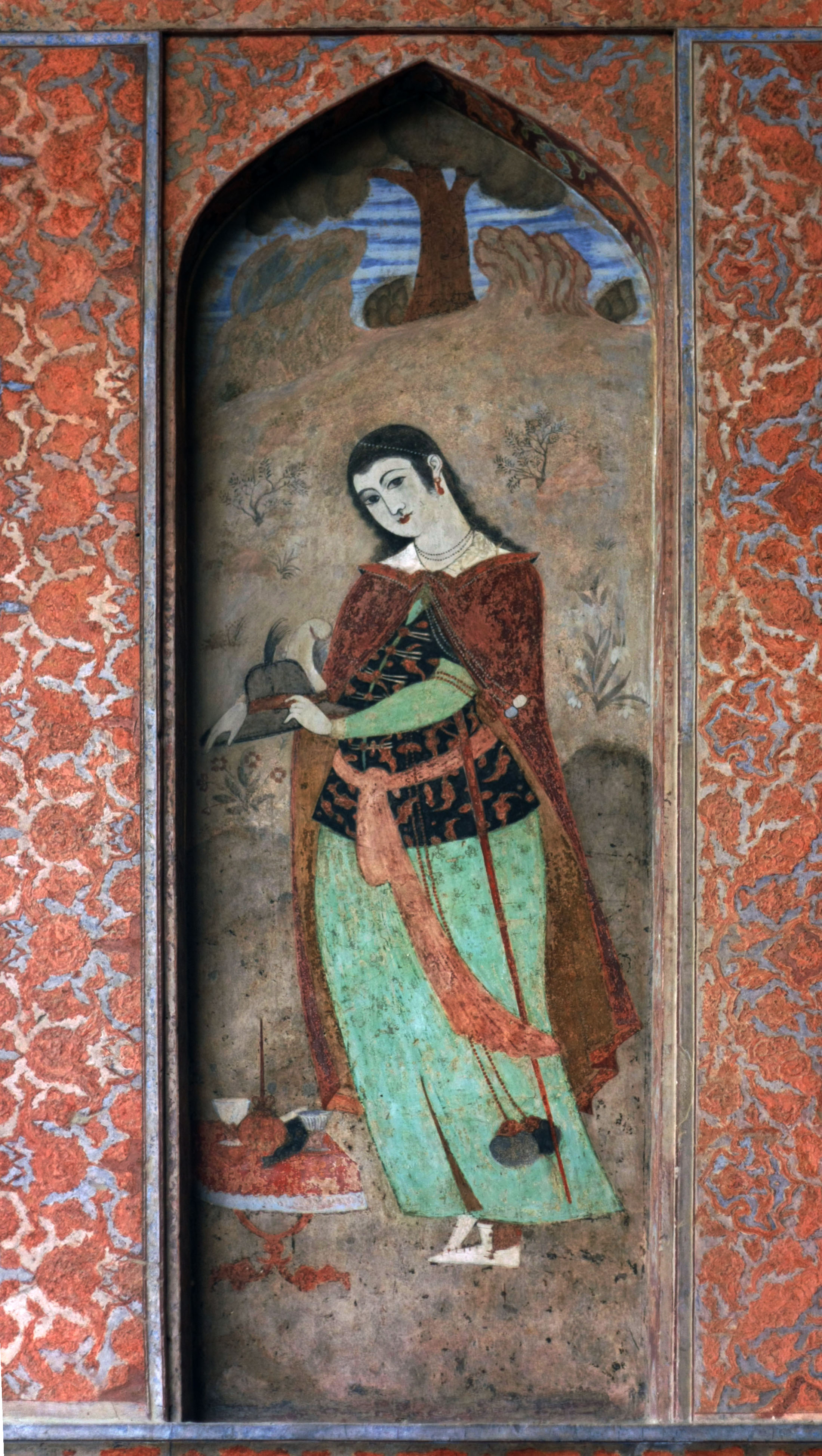 Aali Qapu